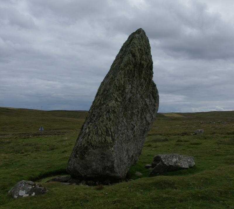 Bordastubble Standing Stone, near Lunda Wick, Unst, Shetland, Scotland